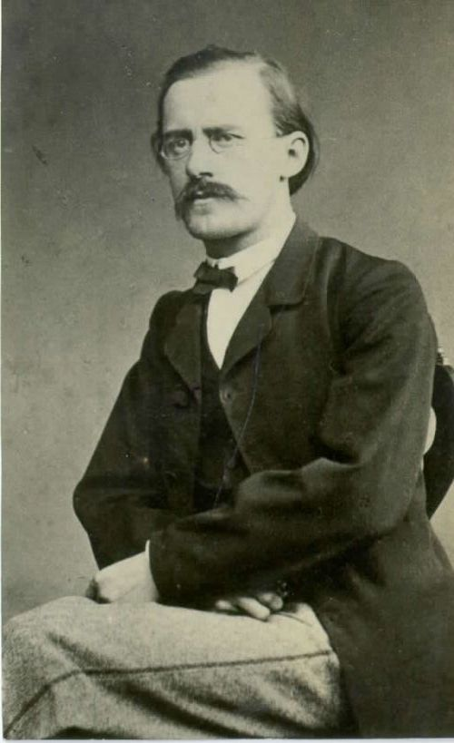 Peter Paul Radics (1836-1912), Slovene journalist and historian.